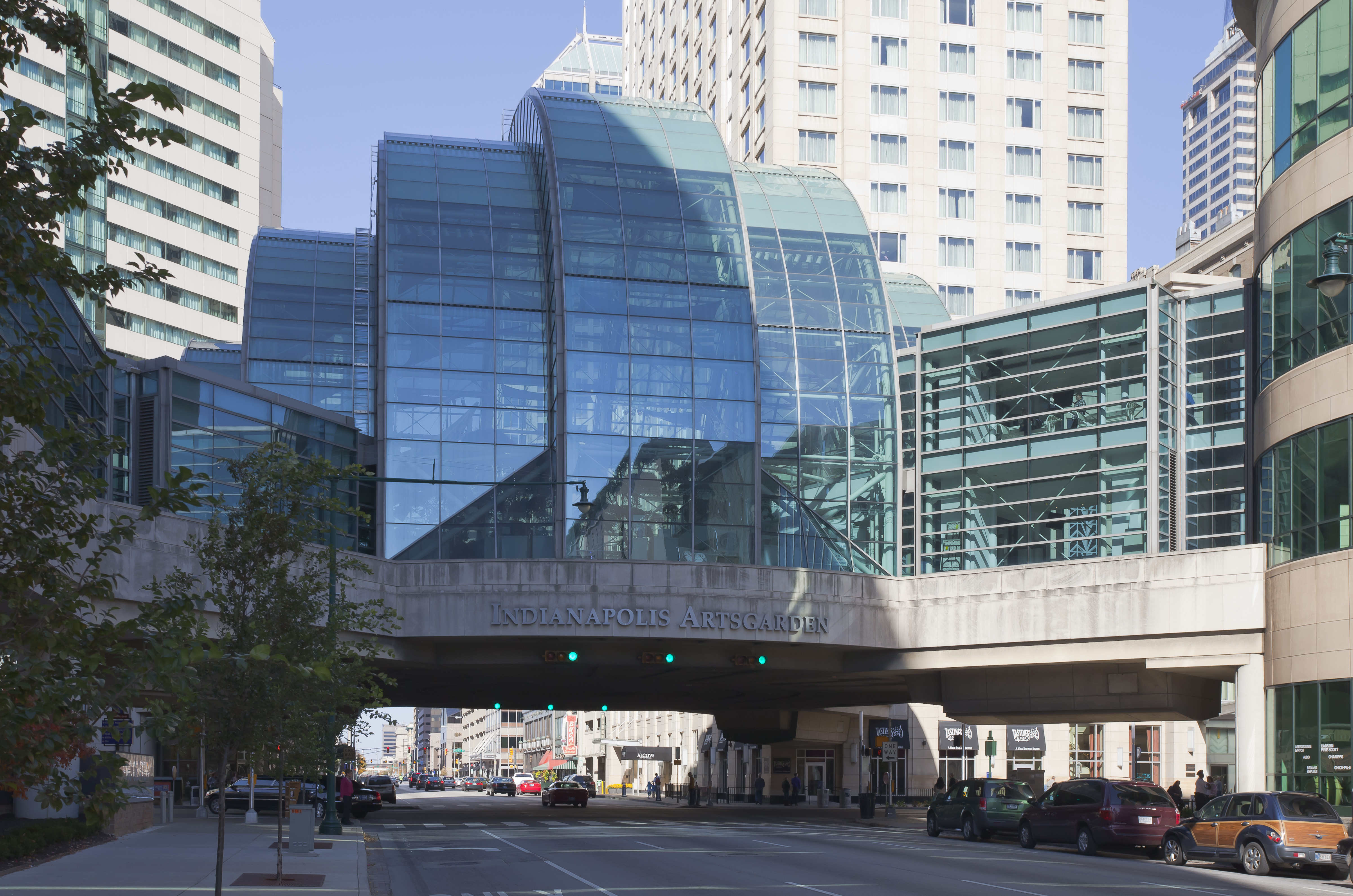 Indianapolis Artsgarden, Indianapolis, USA